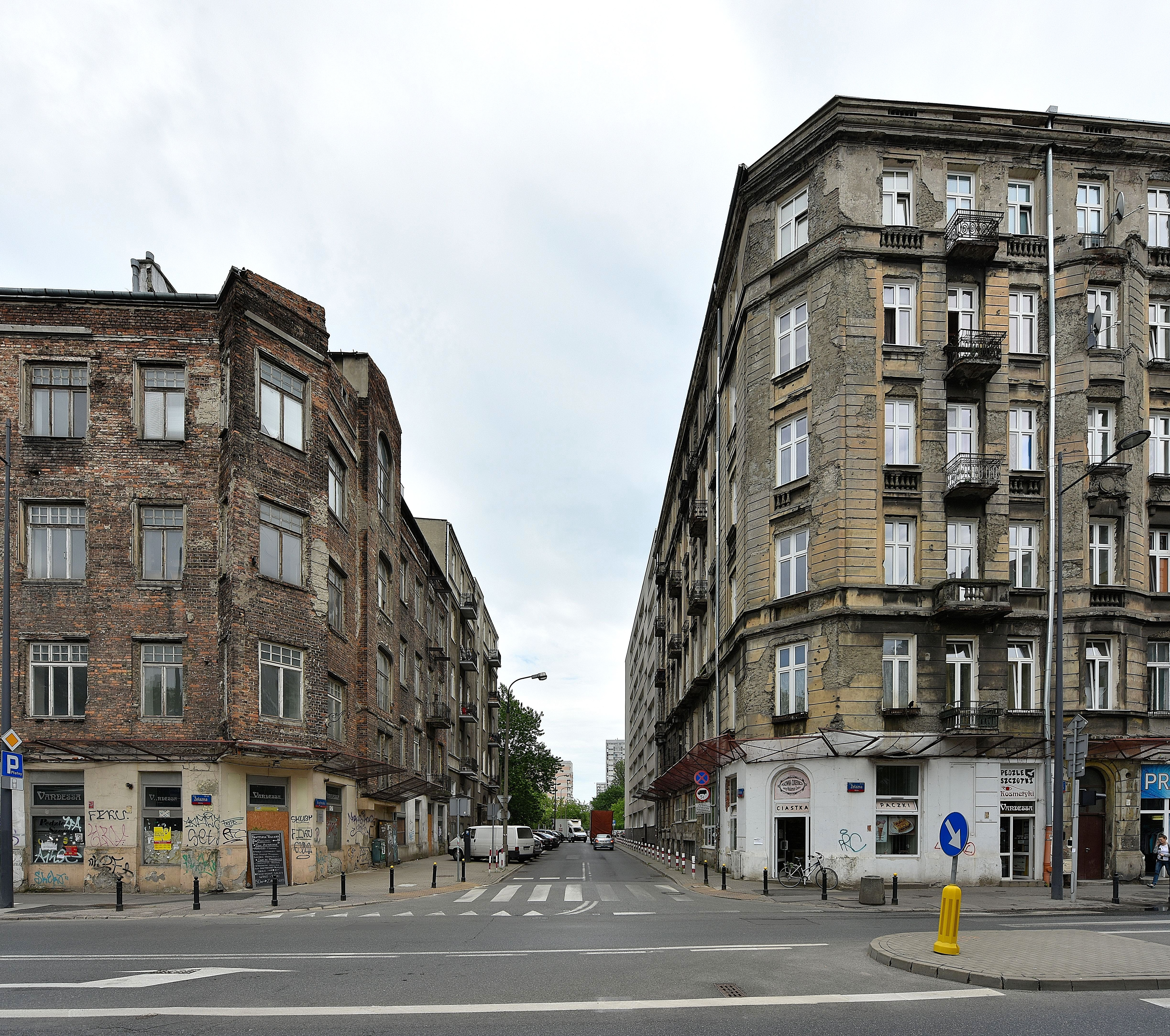 Krochmalna Street viewed from Żelazna Street